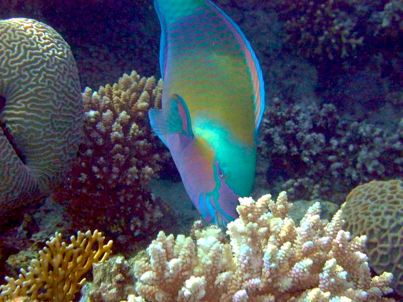 Parrotfish and coral, Eilat, Israel.